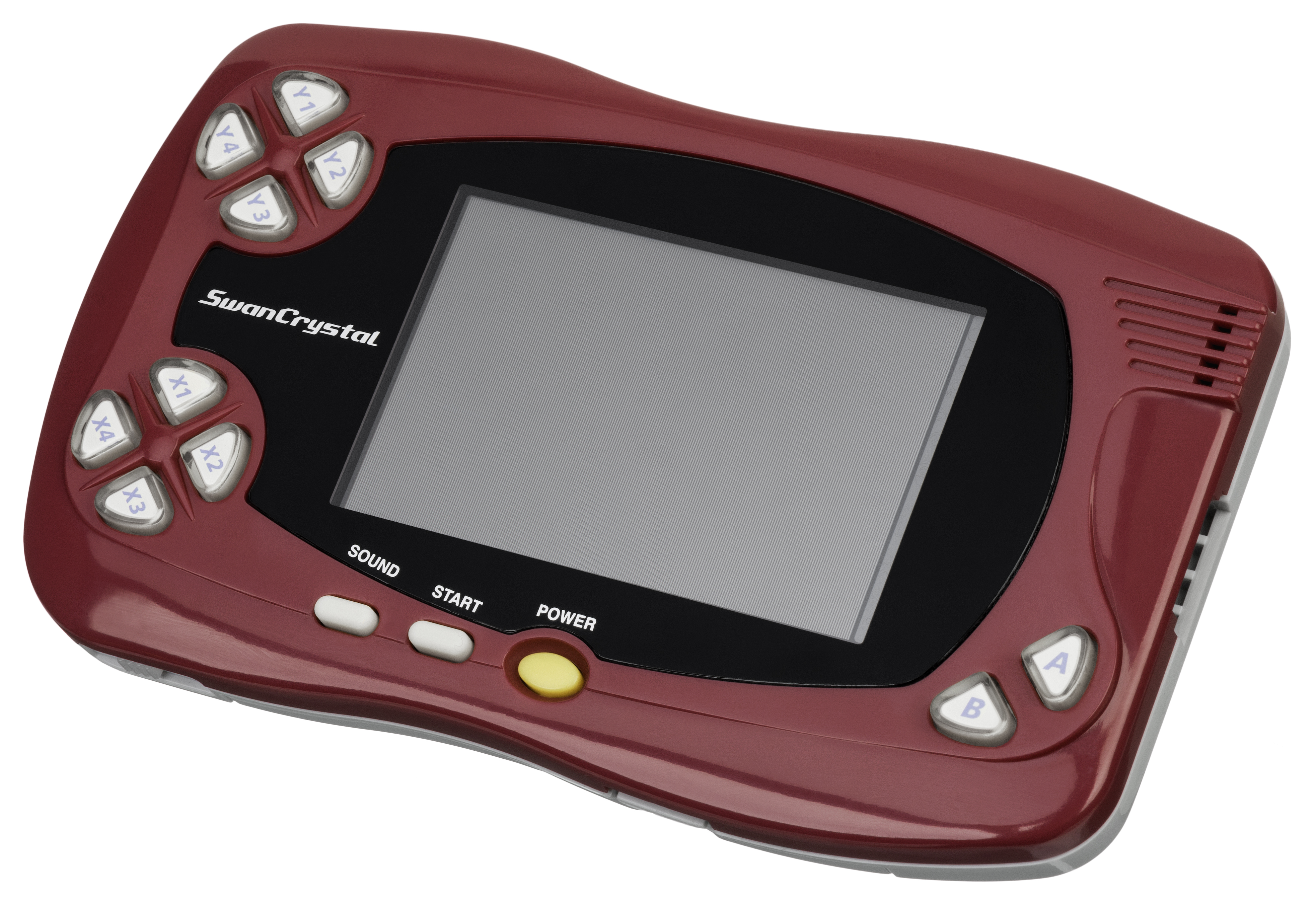 The SwanCrystal, a handheld gaming console from Bandai and released in 2002. This Japan-only release is the third model in the WonderSwan line and follows the WonderSwan Color. The main change from the last model is the upgrade to a TFT LCD screen that offers better contrast and refresh rate. Color shown is wine red.